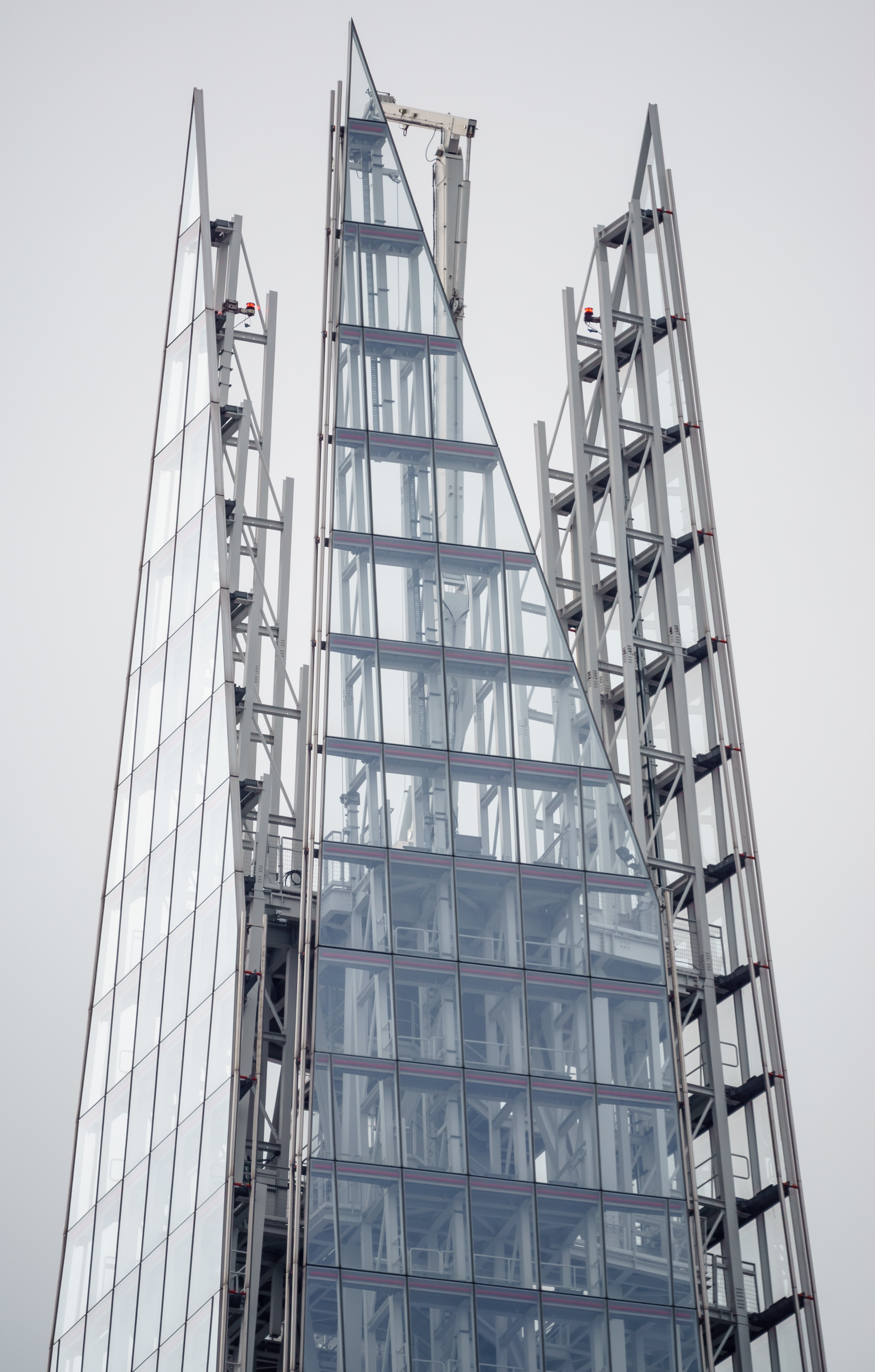 The Shard top. Photo taken from Nomura headquarters.